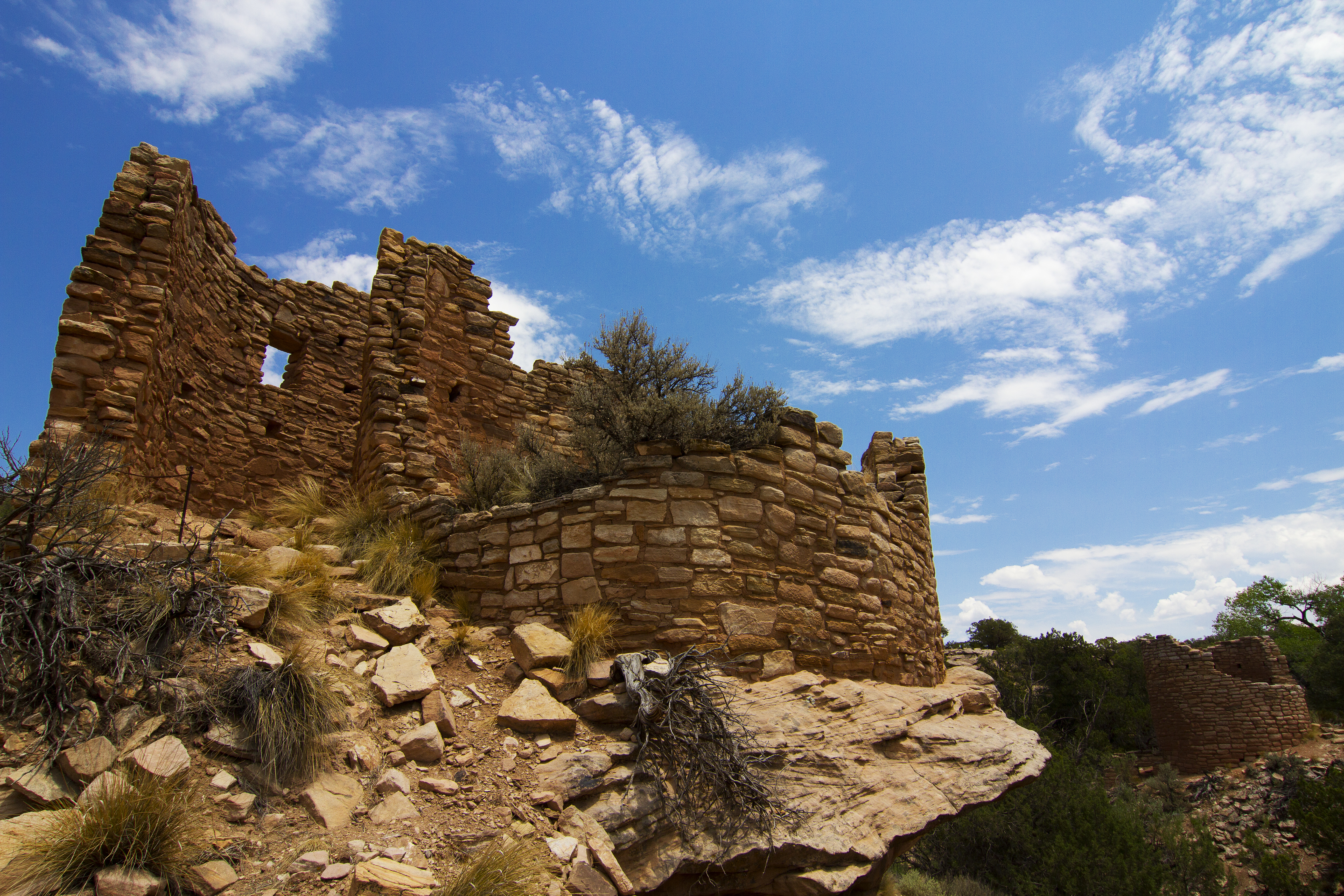 (NPS photo by Andrew Kuhn)